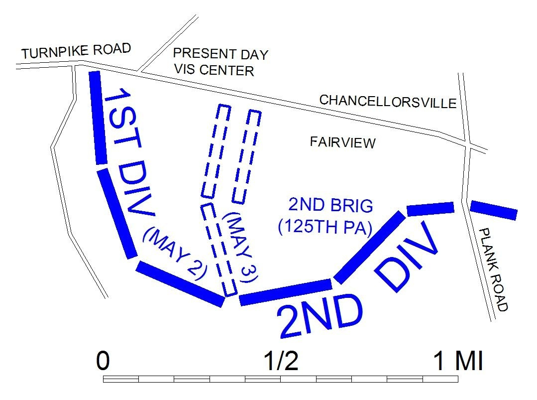 Donald E. Coho created this file 100% from scratch. He releases it to the public domain for free use. There is no copyright, and attribution is not expected. It was drawn using a CAD program overtop of a USGS topographic map; then, the topographic map was deleted. Because of the precision of the topographic map it is more accurate than the sketches which it mimics. The resulting style of the graphic is completely different from the sources, and its accuracy is better.